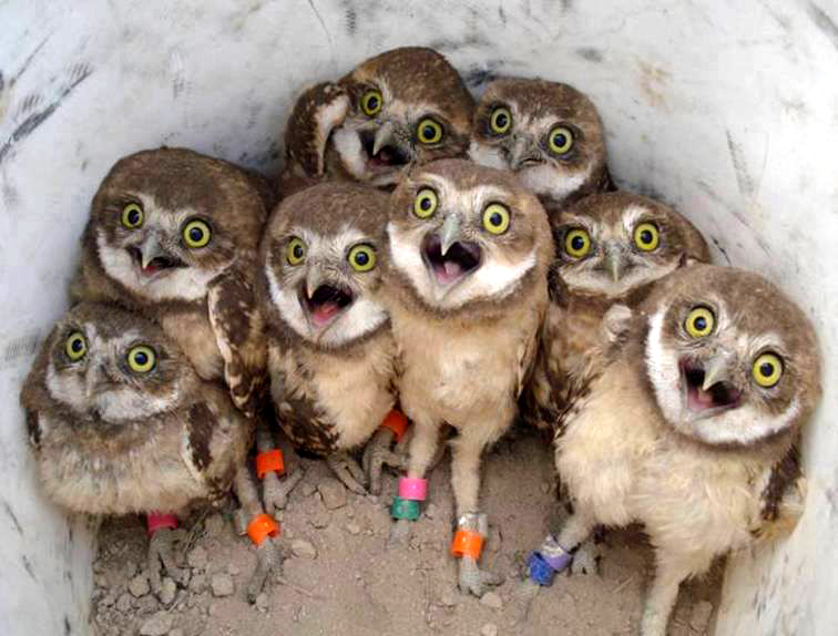 Baby burrowing owls by Katie McVey, USFWS.